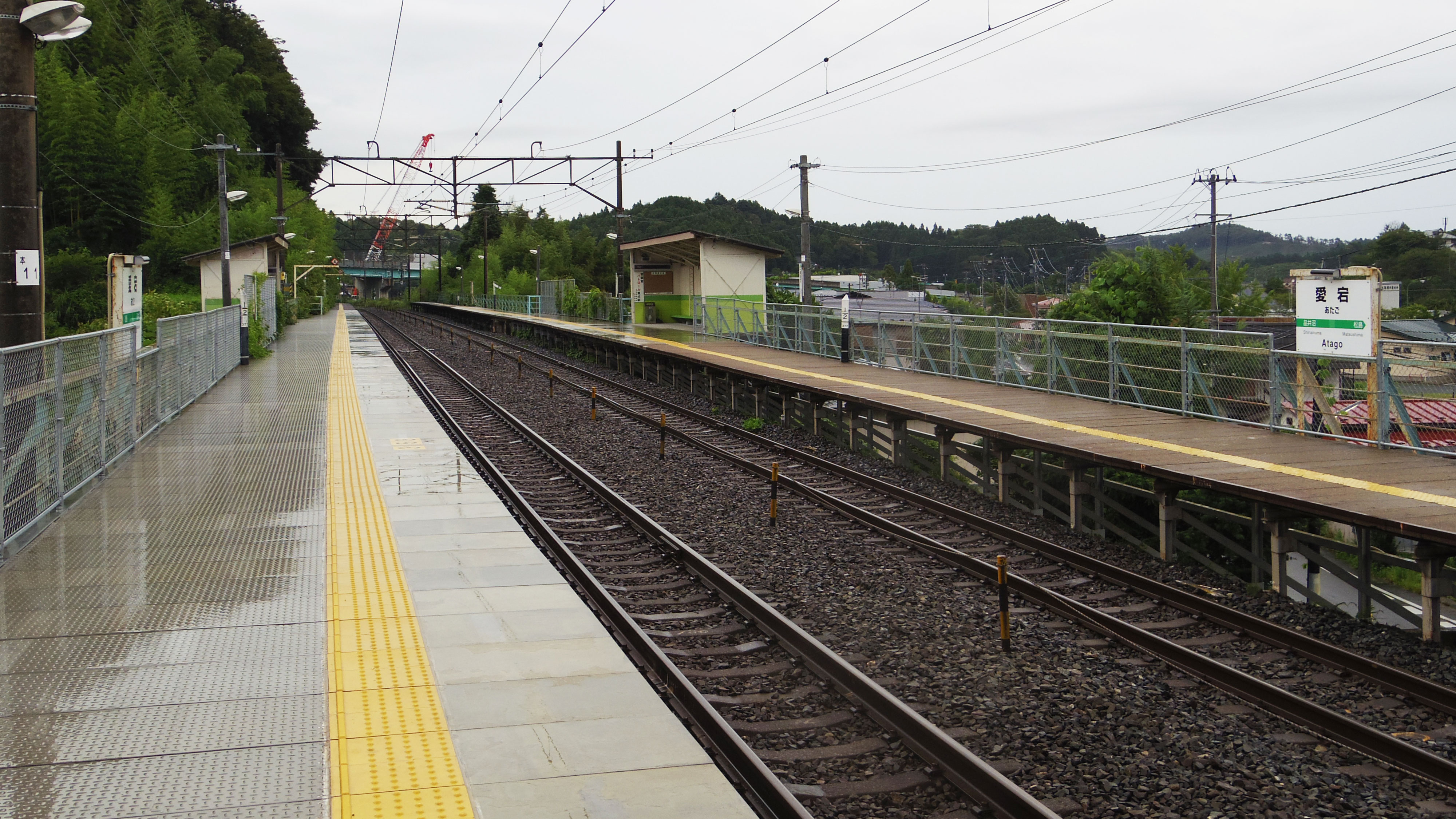 The platforms at Atago Station on the Tōhoku Main Line